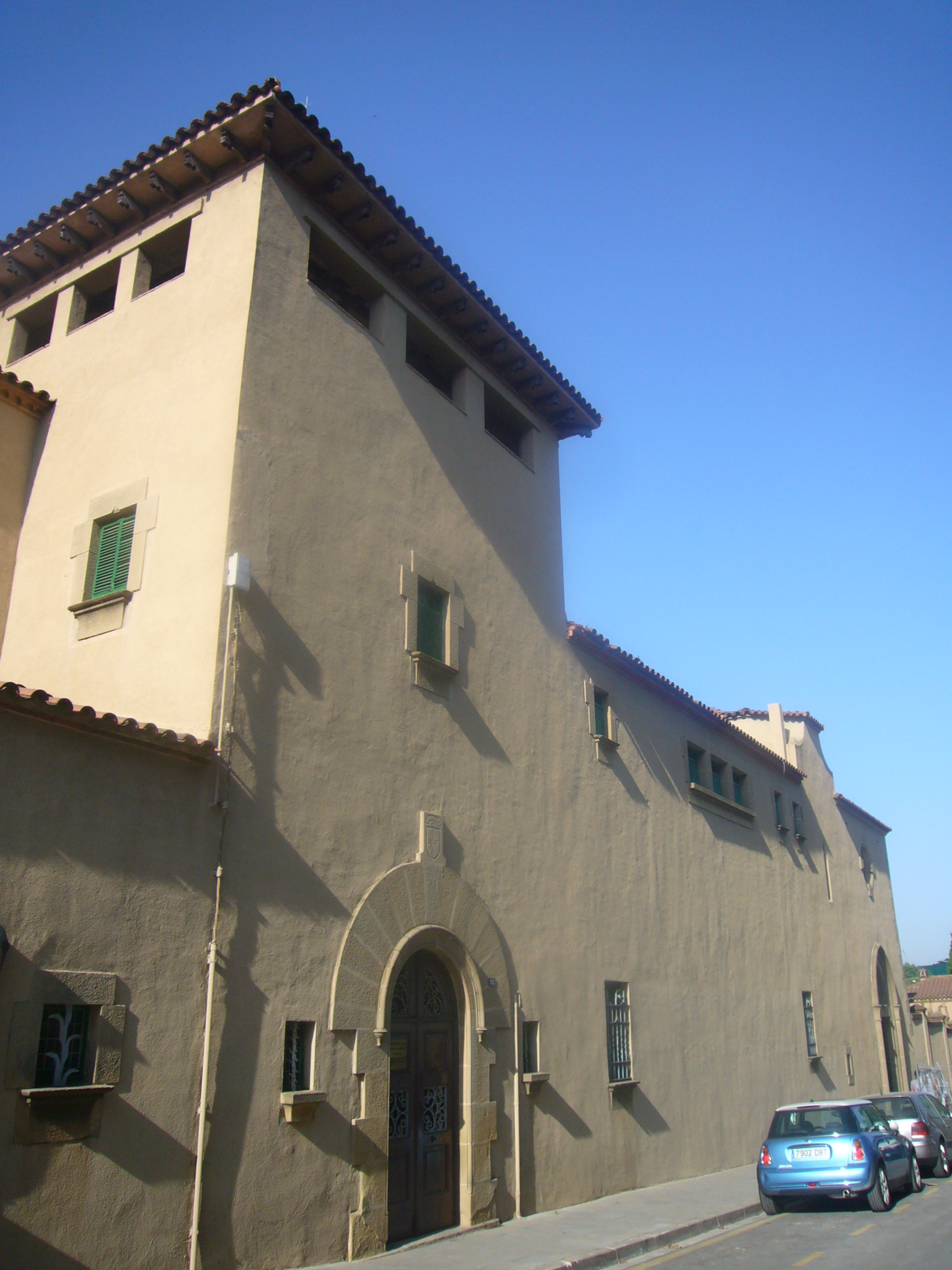 Monestir Montsio